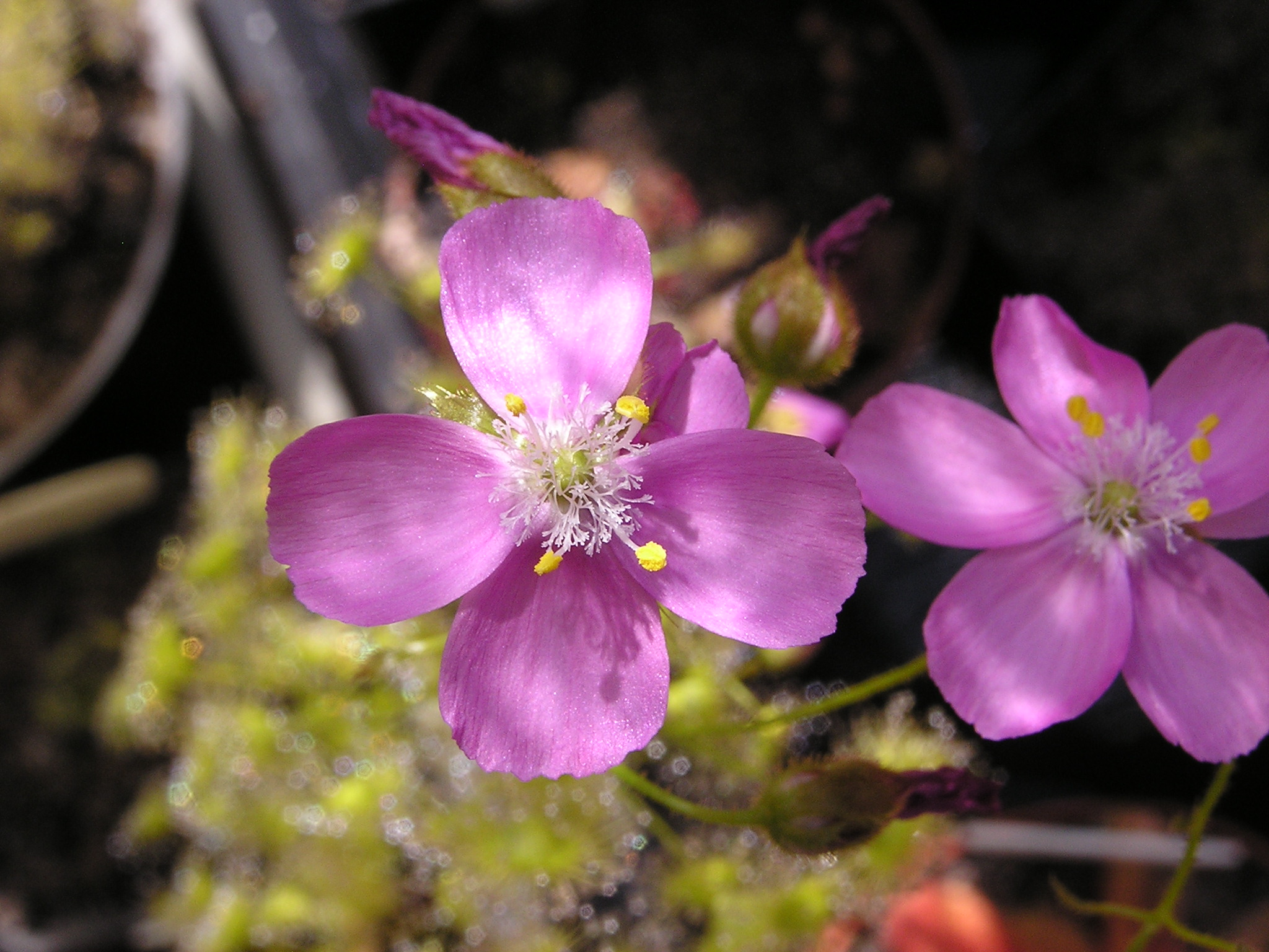 Drosera stricticaulis